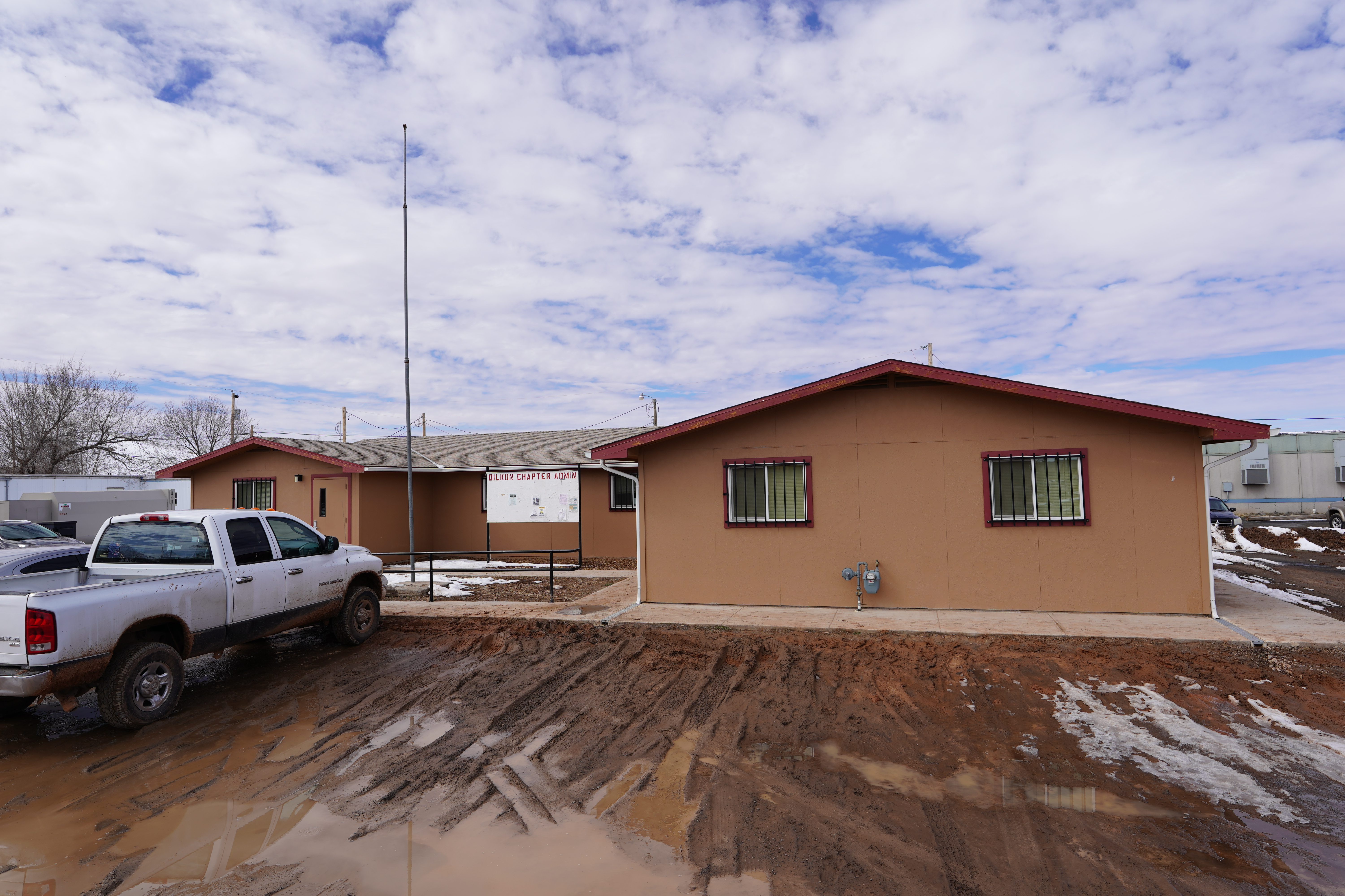 The photograph is of an administration building for the Dilkon Chapter of the Navajo Nation. Photograph taken on 2019-02-27T18:33:40Z.